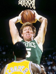 Boston Celtics Bill Walton vs Los Angeles Lakers AC Green, Mychal Thompson, Michael Cooper in the 1987 NBA Finals at the Los Angeles Forum